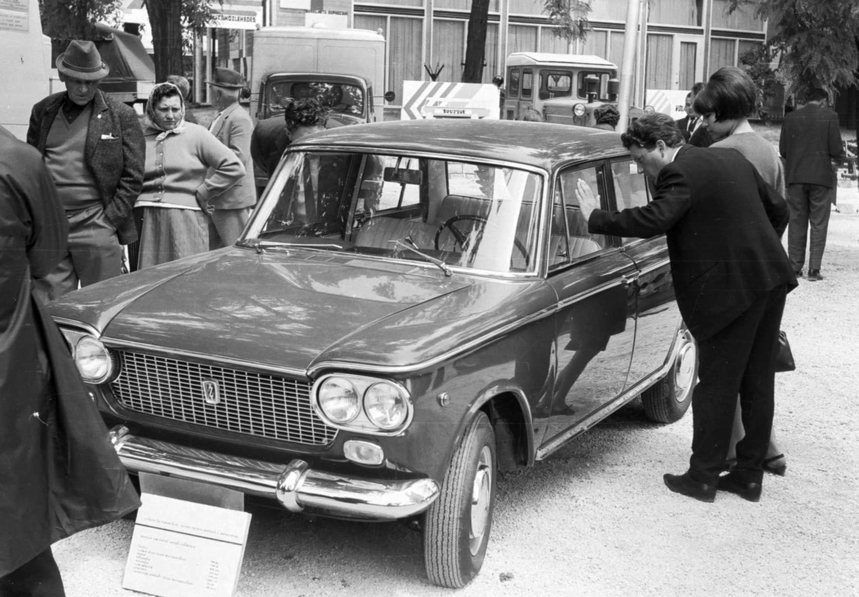 Location: Hungary, Budapest XIV., International Fair Tags: Zastava-brand, Yugoslavian brand, international fair, automobile, Budapest